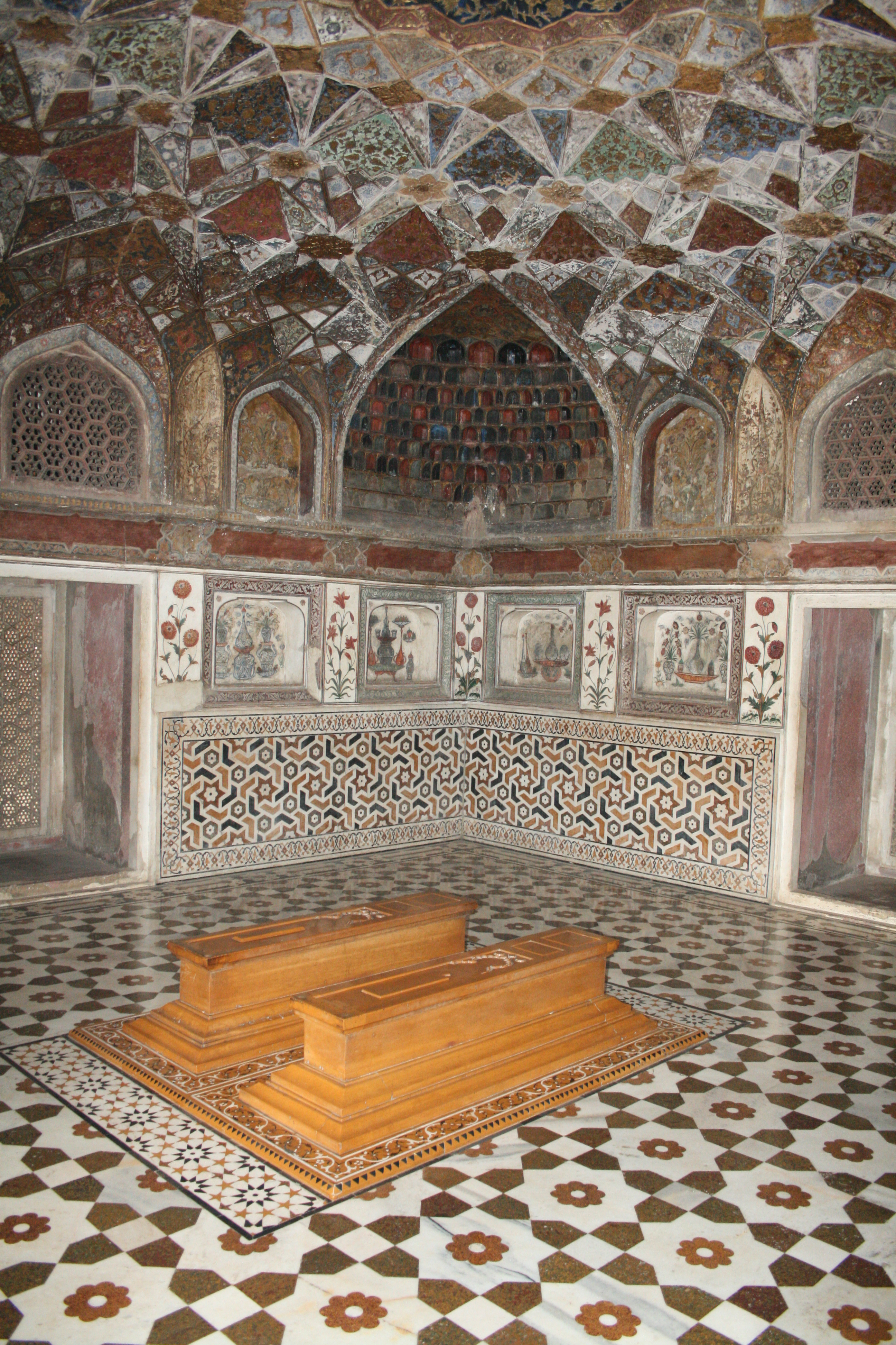 Itmad-Ud-Daulah's Tomb, Agra, India